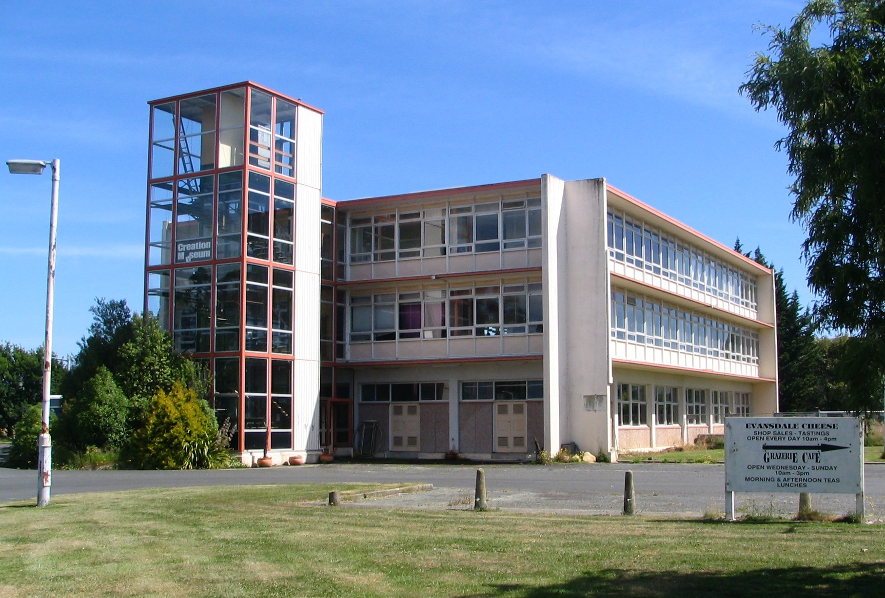 Building from the former Cherry Farm Hospital, in Otago, New Zealand.